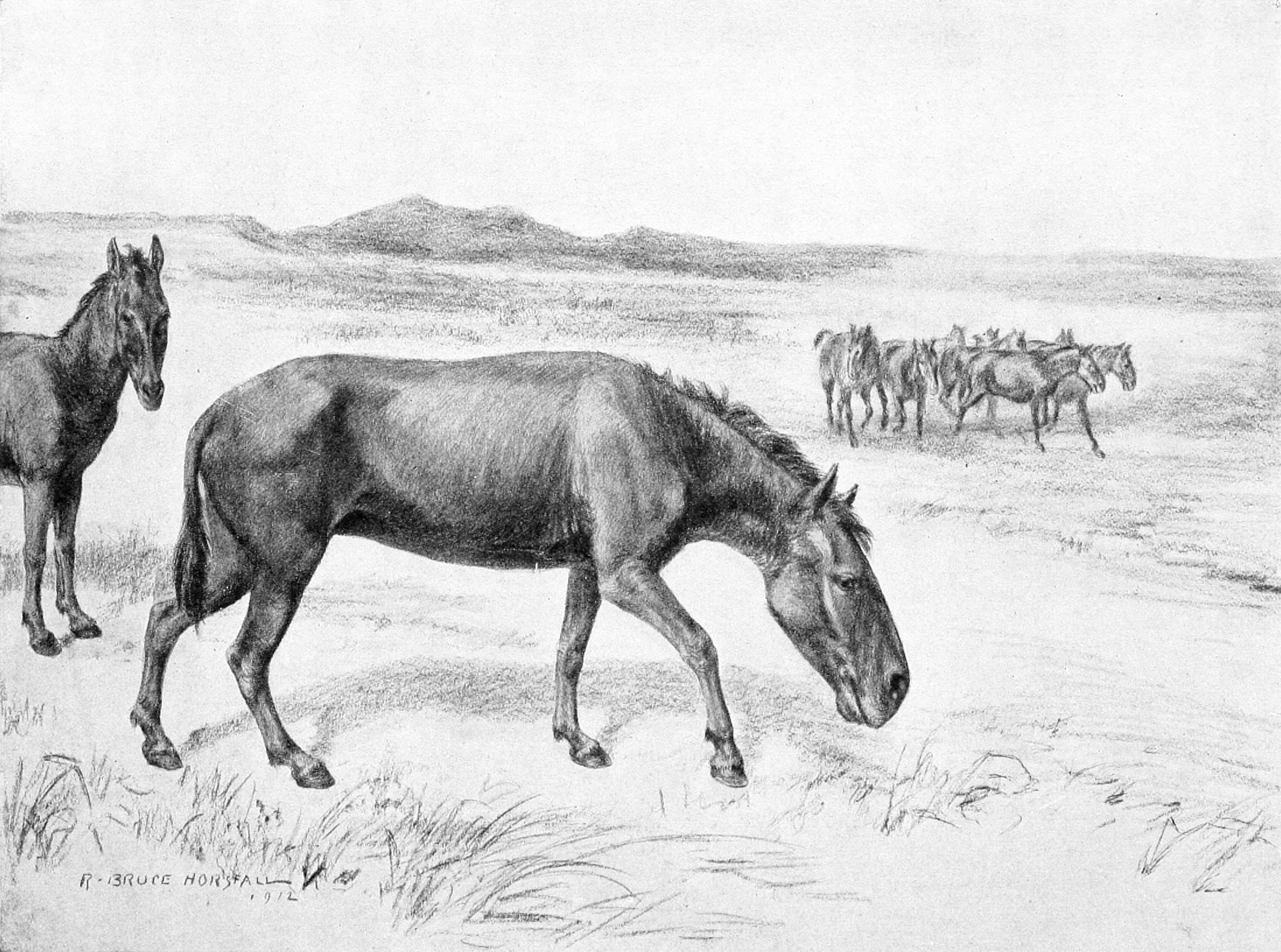 Life restoration of Hippidion principale) (formerly neogaerum) from W.B. Scott's "A History of Land Mammals in the Western Hemisphere." New York: The Macmillan Company.